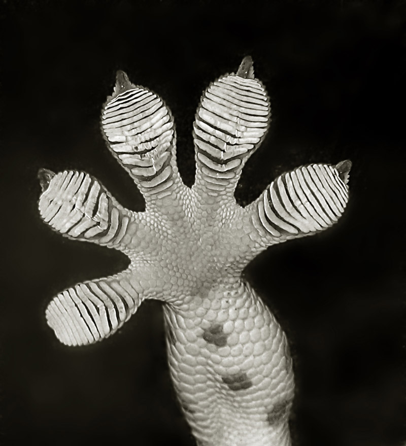 Foot of a Tokay Gecko, showing adhesive pads.